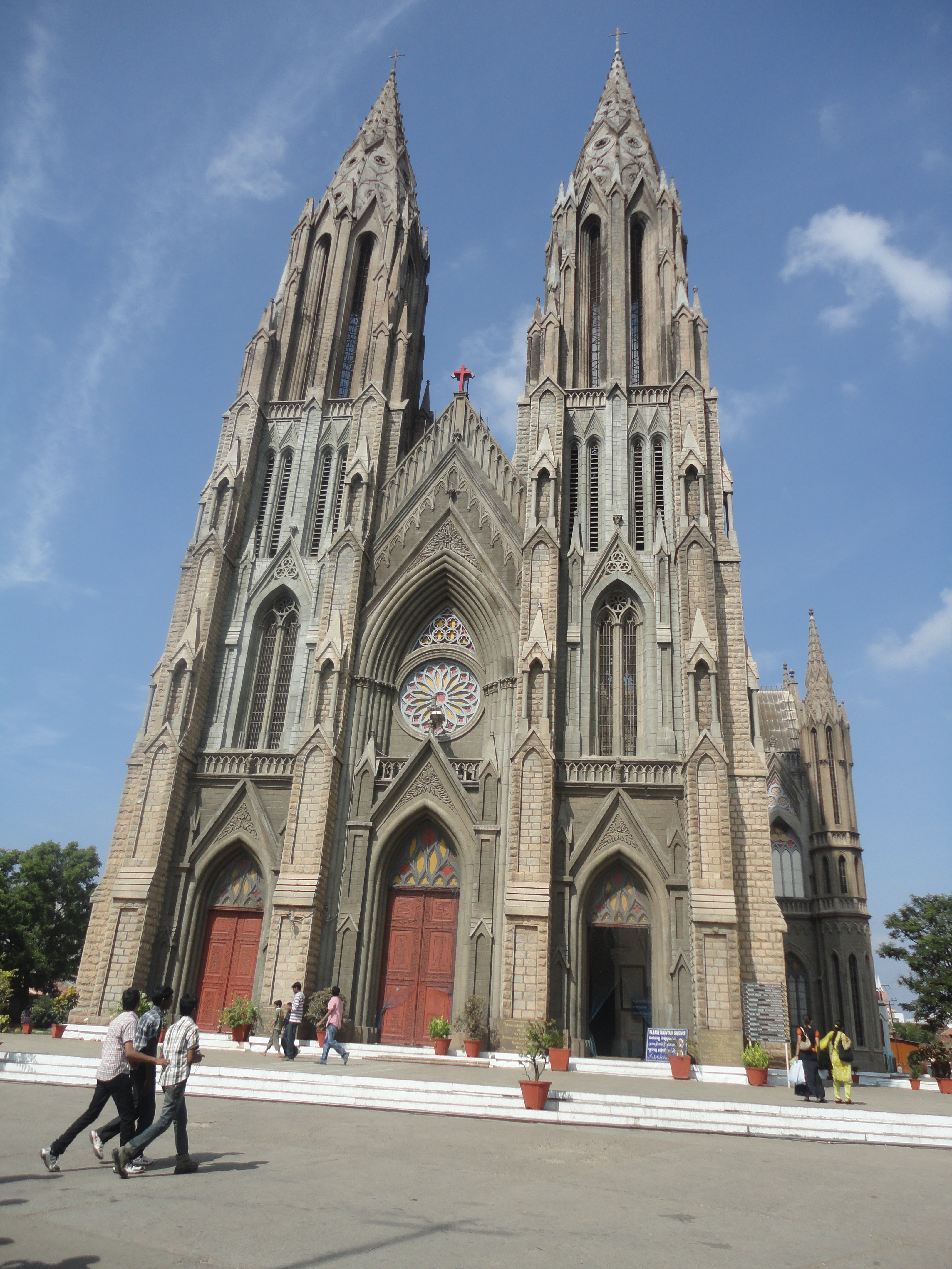 St. Philomena's church is a church built in the honour of St. Philomena in the Diocese of Mysore, India. It was constructed in 1936 using a Neo Gothic style and its architecture was inspired by the Cologne Cathedral in Germany.A church at the same location was built in 1843 by the then Maharaja Mummadi Krishnaraja Wodeyar.